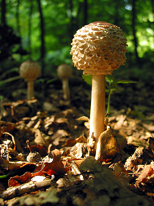 Shaggy parasol, Havré, Belgium